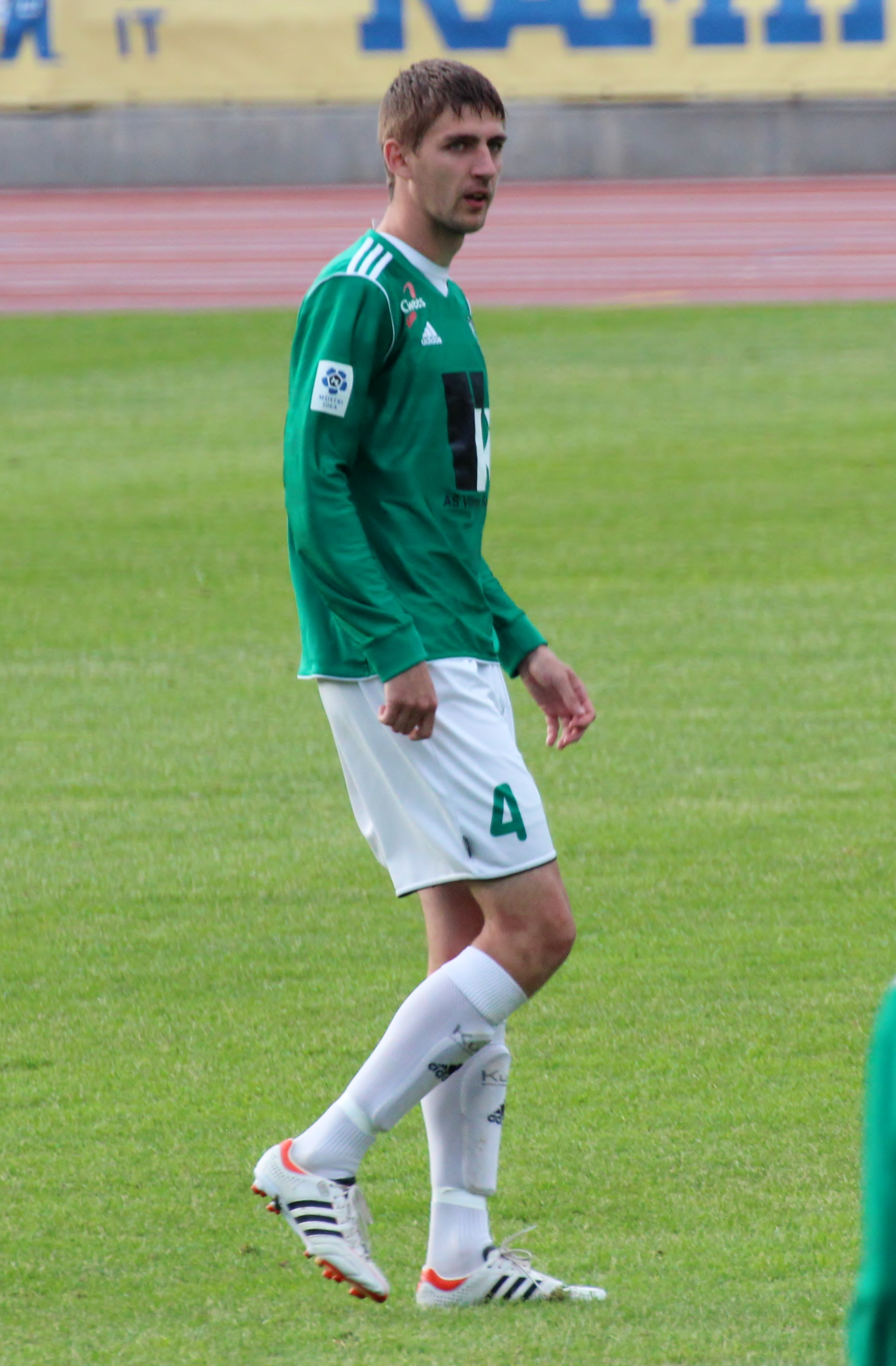 Igor Morozov playing football